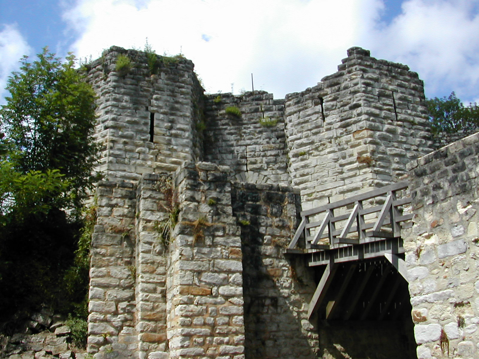 Main entrance of the castle of Château-Thierry. Taken at Château-Thierry, France, in front of the main entrance, with a Nikon Coolpix 775.